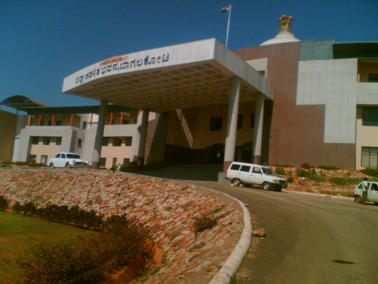 Bagalkot district Zilla Panchayat office building. This building was newly constructed in 2005 to accommodate the officials for the new district headquarters.